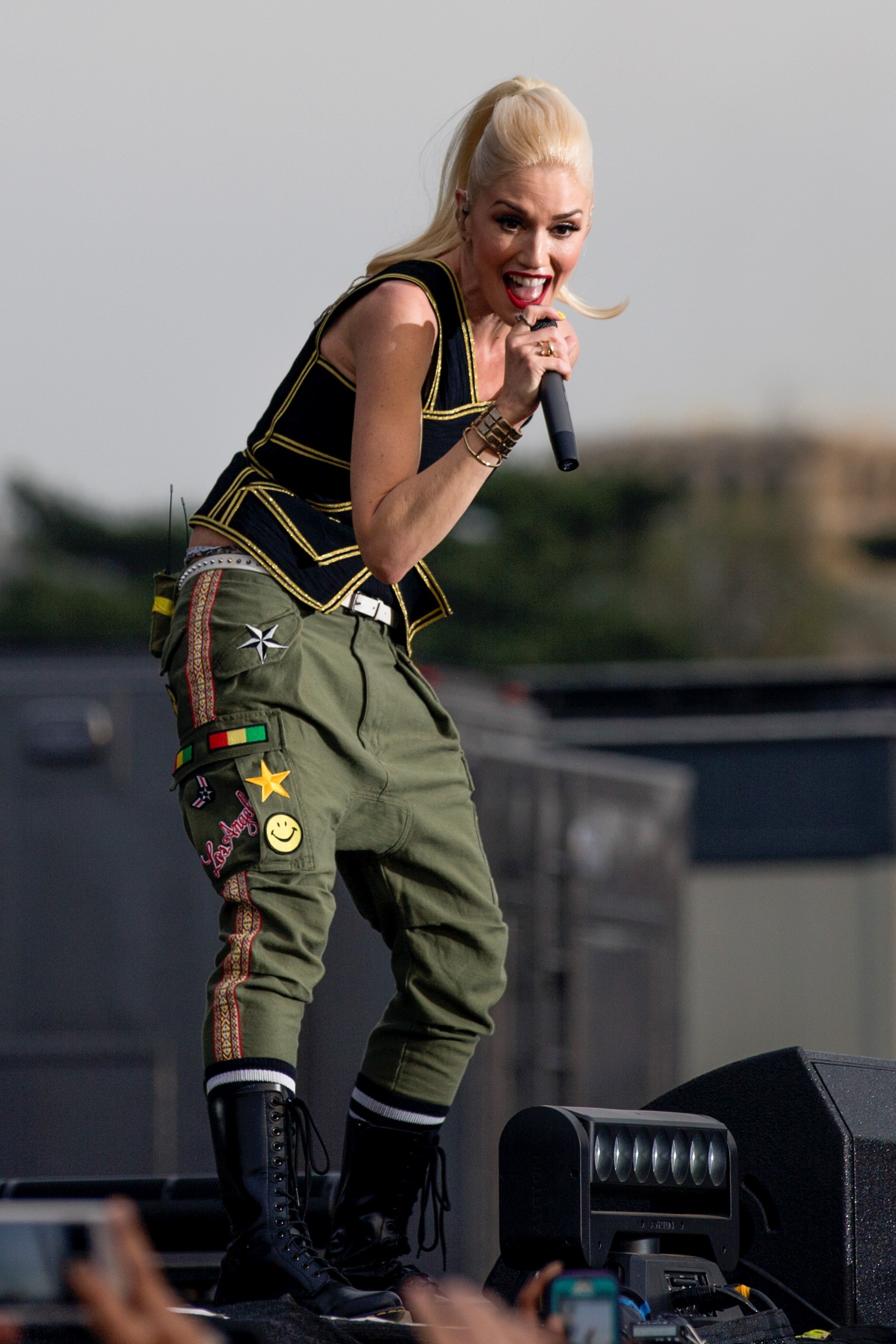 Gwen Stefani of No Doubt at Global Citizen 2015 Earth Day in Washington DC